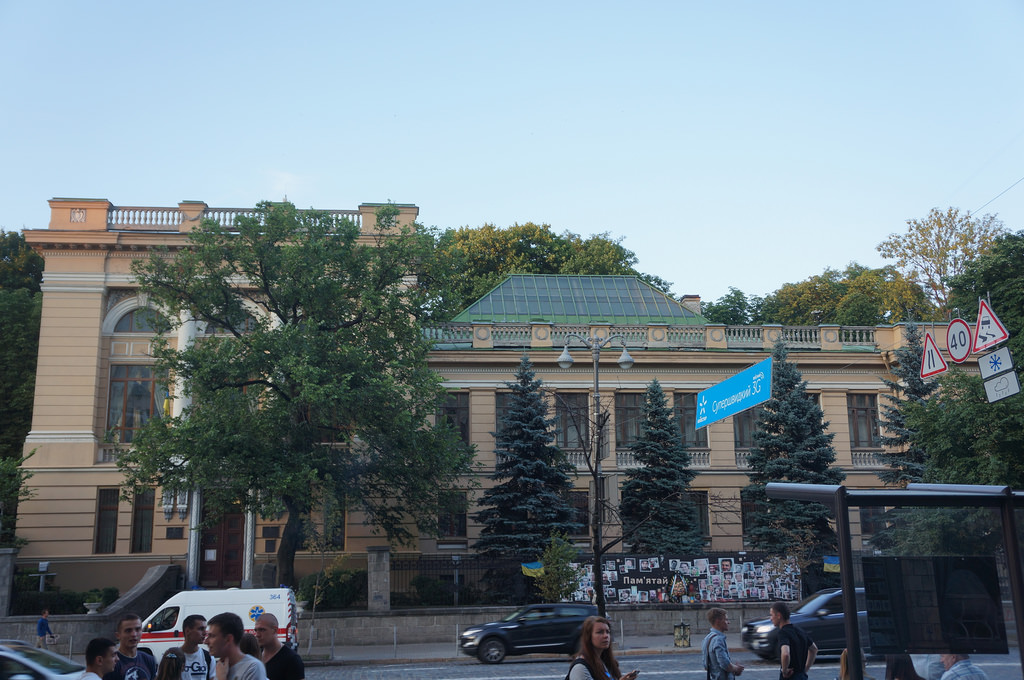 National Parliamentary Library of Ukraine in Kyiv